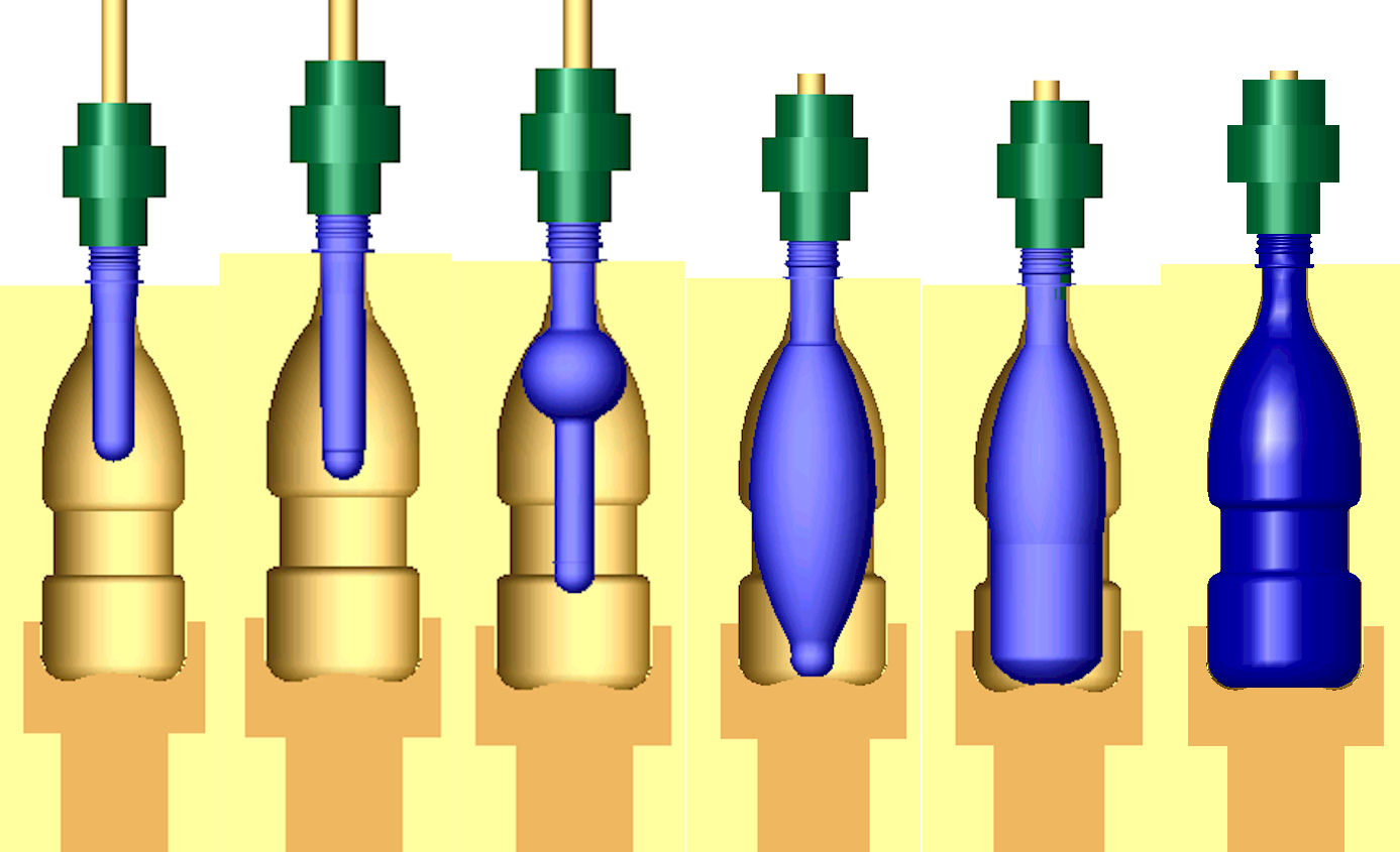 blow malding process